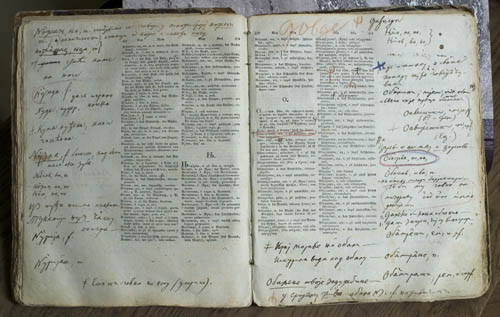 Original Srpski rječnik (The Serbian Dictionary), with Vuk Karadžić's notes